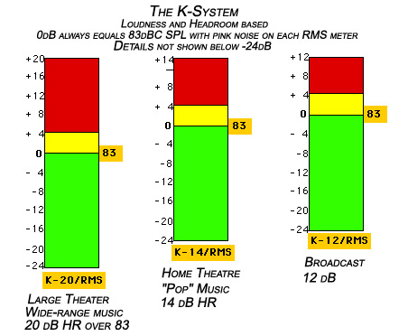 The three K-System meter scales are named K-20, K-14, and K-12 by Bob Katz.